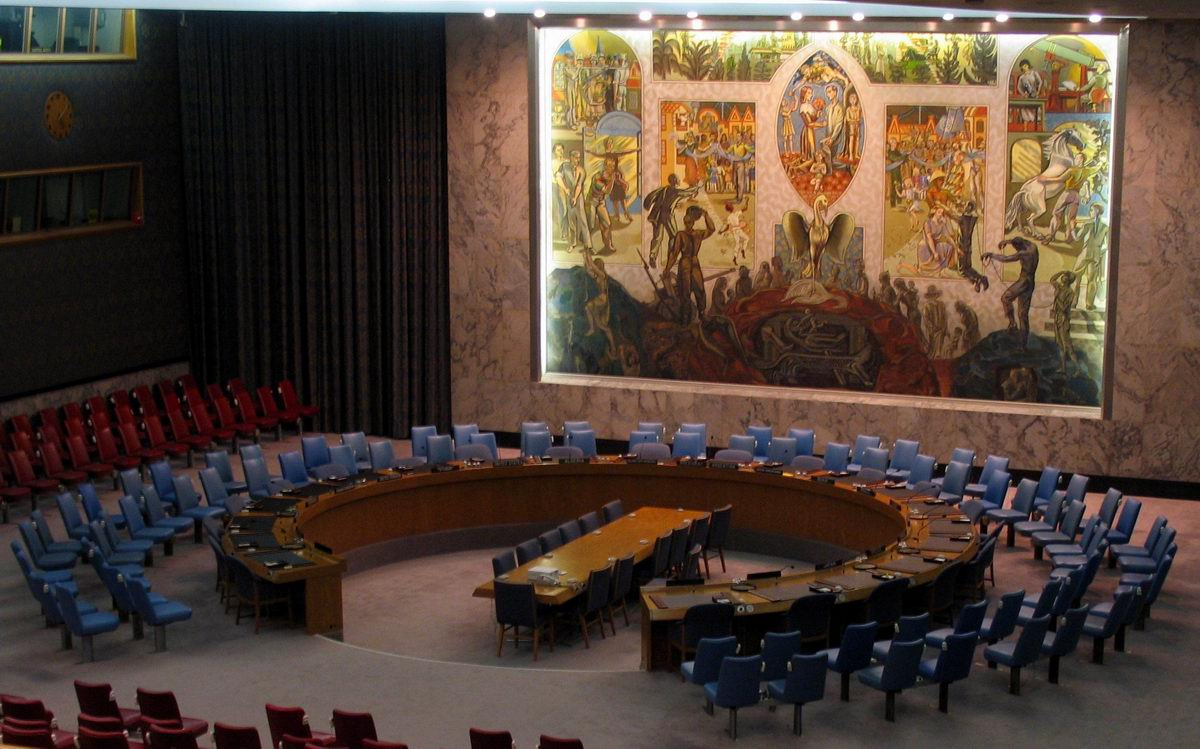 The United Nations Security Council Chamber in New York, also known as the Norwegian Room. Details on the tapestry